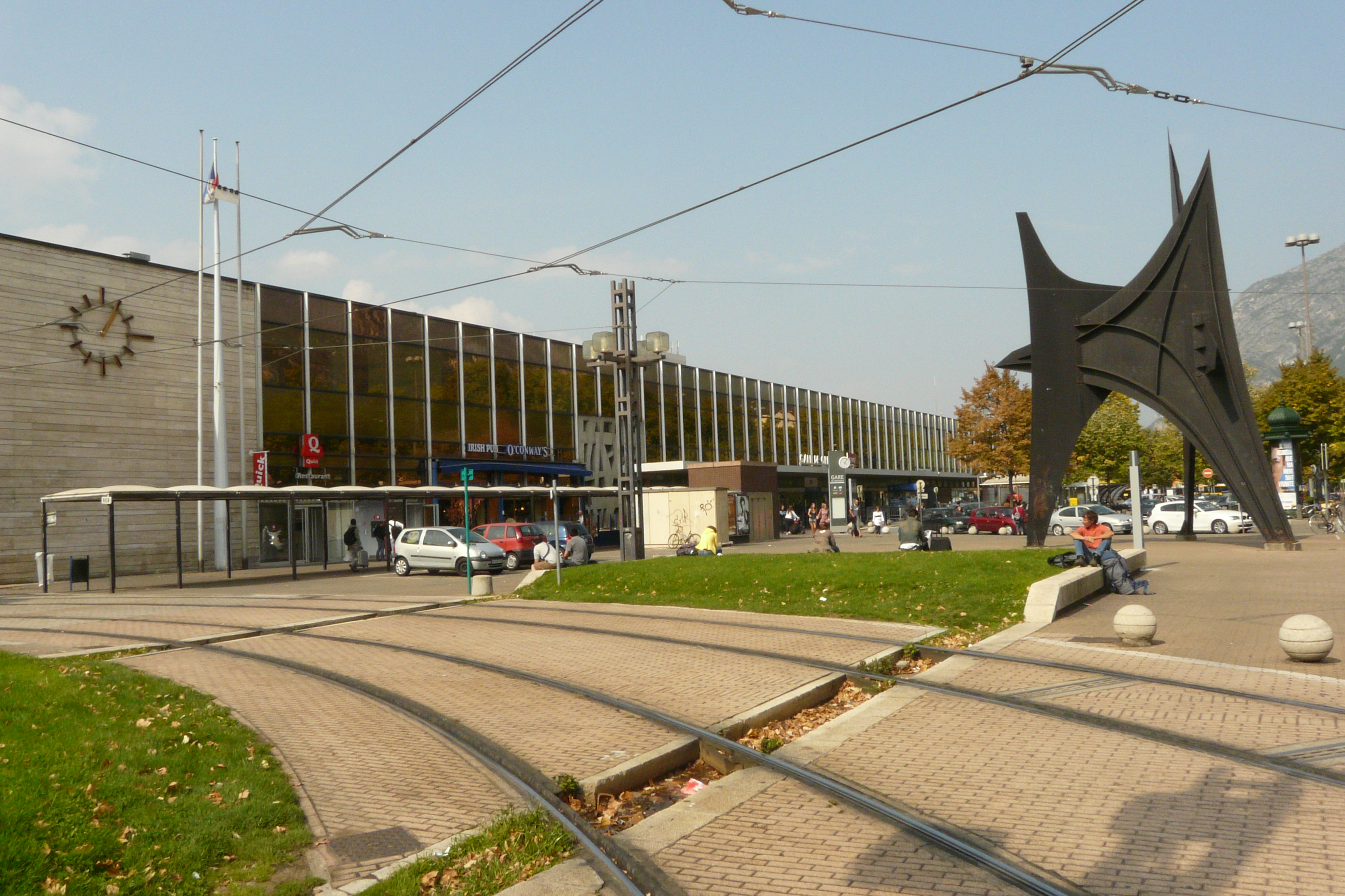 Train Station of Grenoble